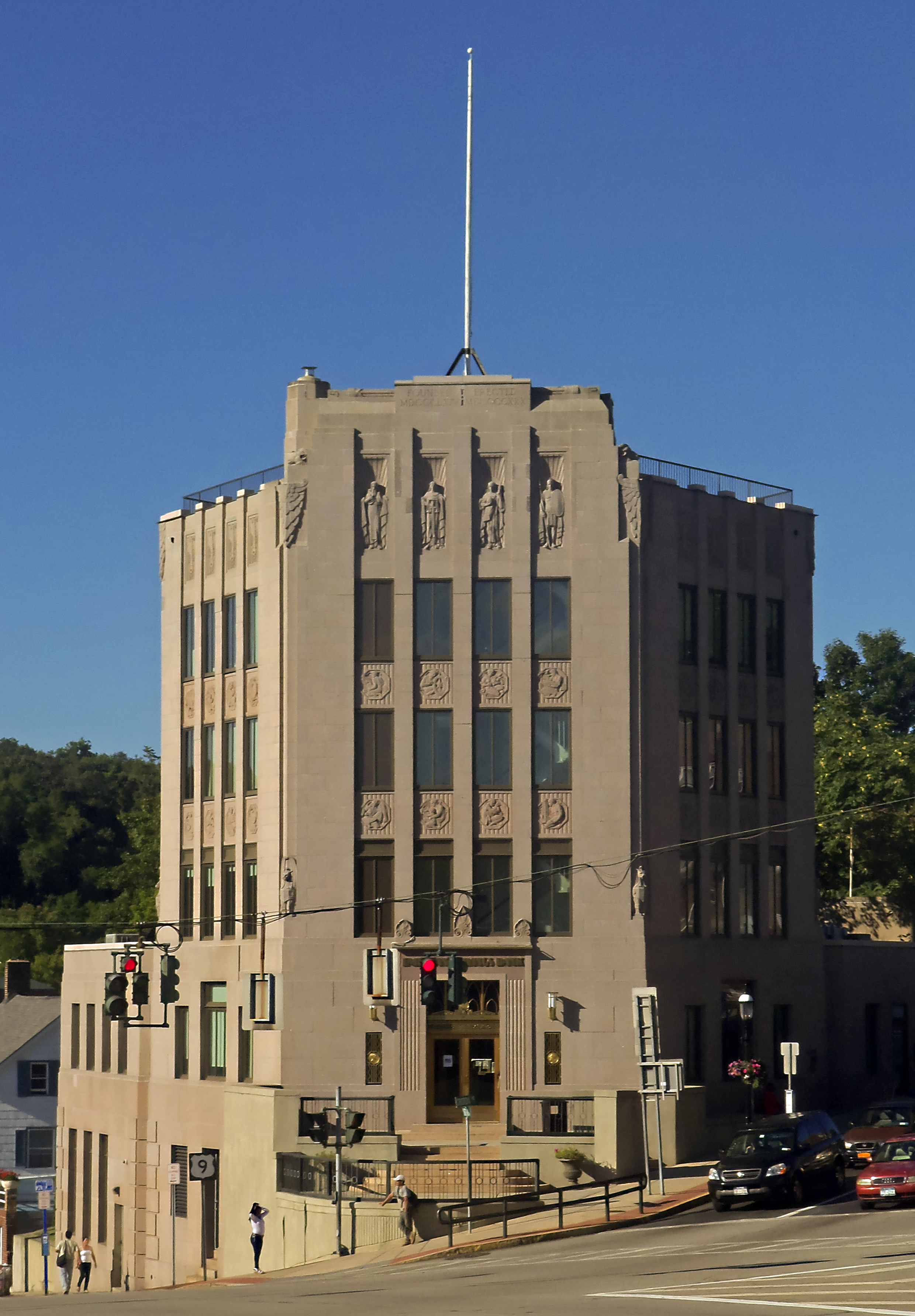 First National Bank building, a contributing property to the downtown historic district, Ossining, NY, USA